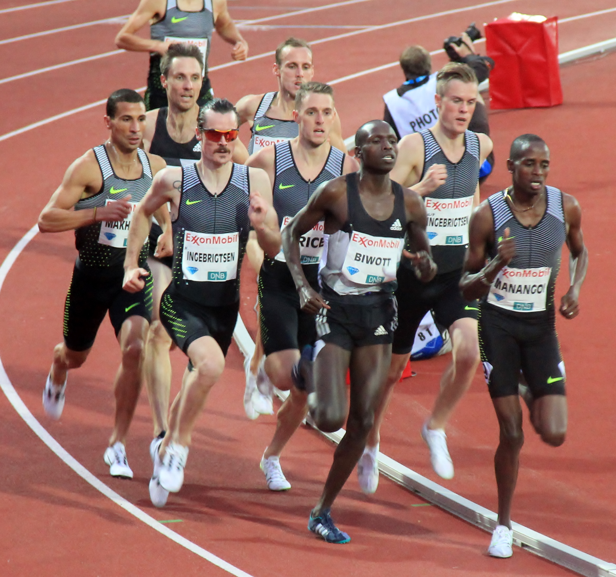 The Dream mile at the 2016 Bislett Games with the Ingebrigtsen brothers